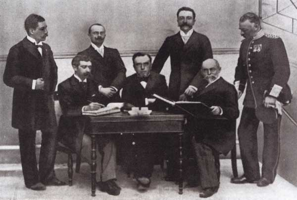 Members of the Olympic Committee at the Athens Olympic Games in 1896, Item part of: Archieves of the InternationalOlympic Committee; photography, reproduction, no re